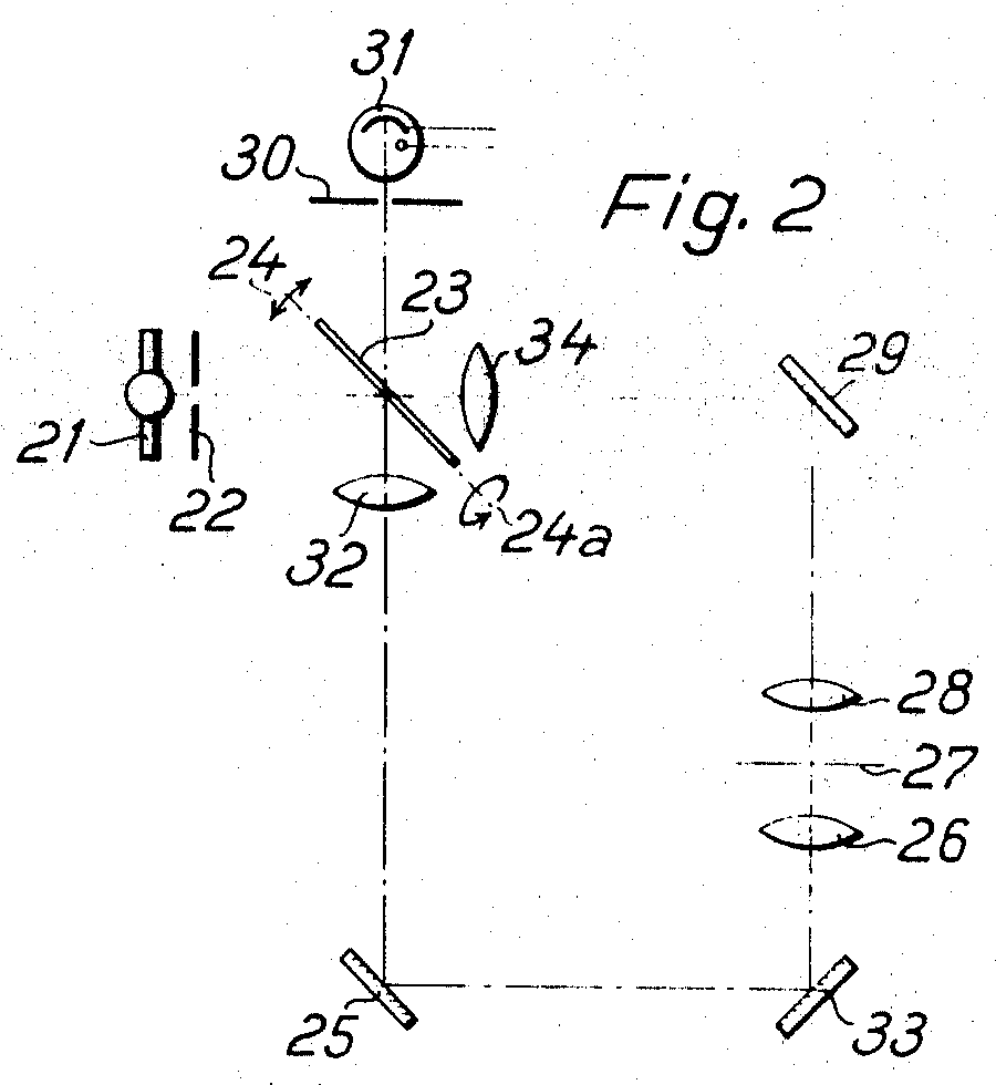 Images from the US-patent 3518014, "Device for Optically scanning the object in a microscope